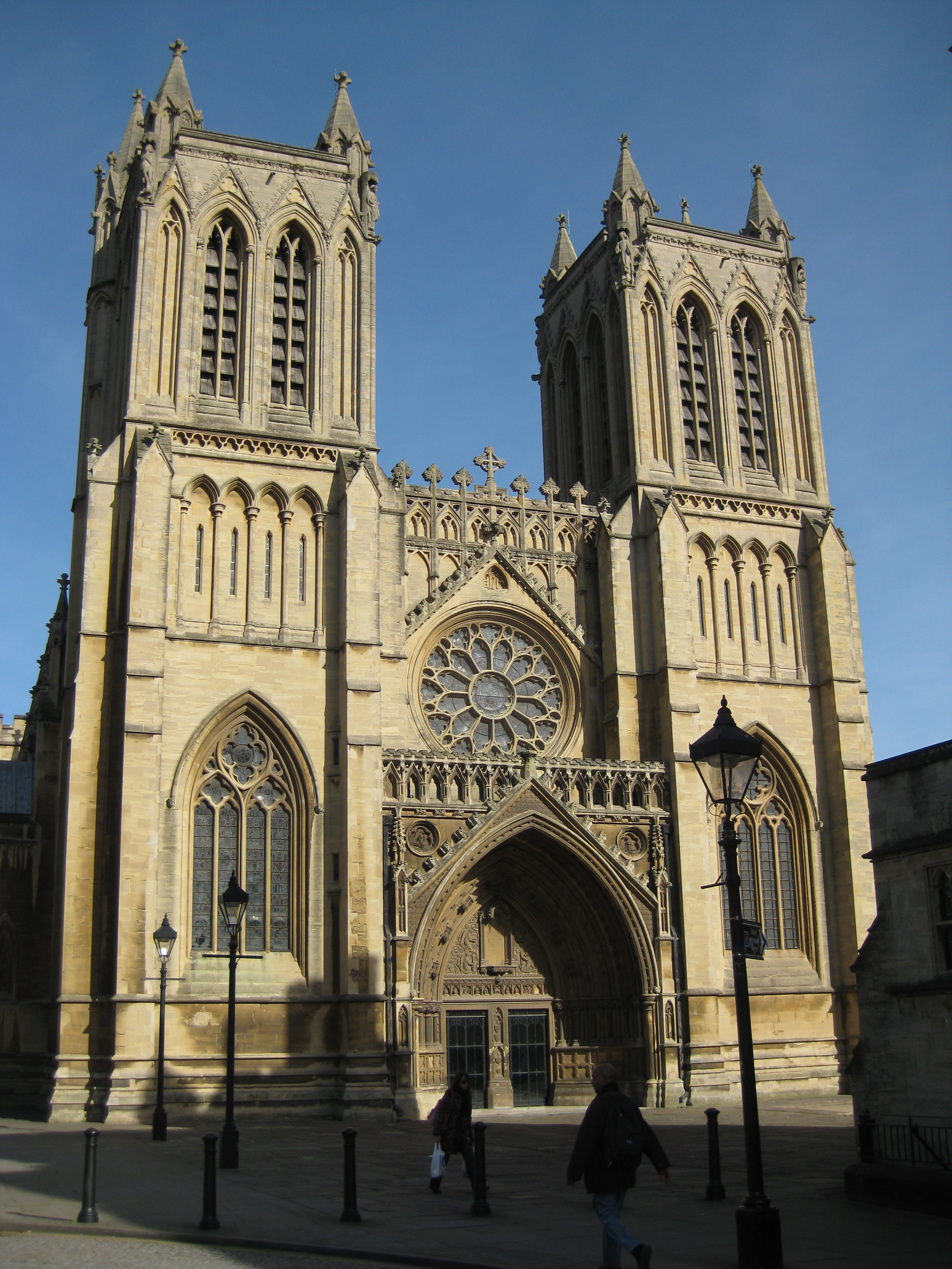 A higher resolution image of the west end of Bristol Cathedral